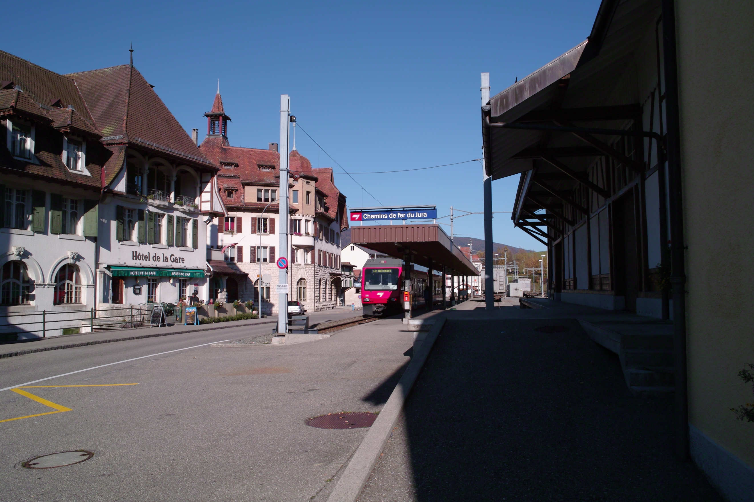 Railway station of Tavannes, Bernese Jura, Switzerland.